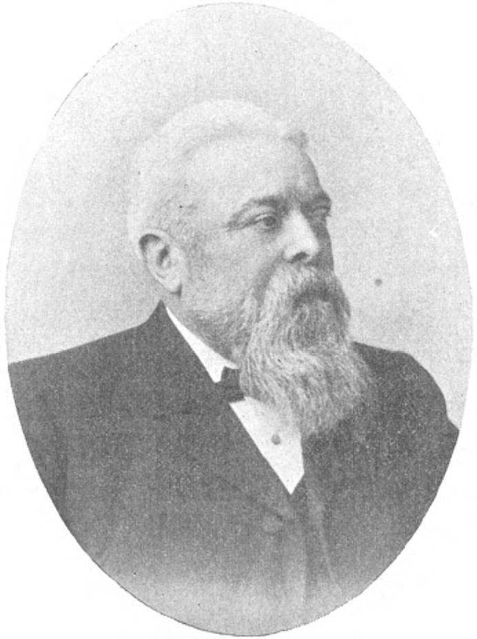 nameW. J. H. PRINZEN political affiliationPolitical Catholicism positiemember of the Senate of the Netherlands districtNorth Brabant period27 November 1890-1913